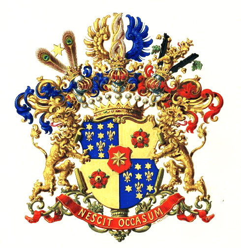 Coat of arms of Ungern-Sternberg family.